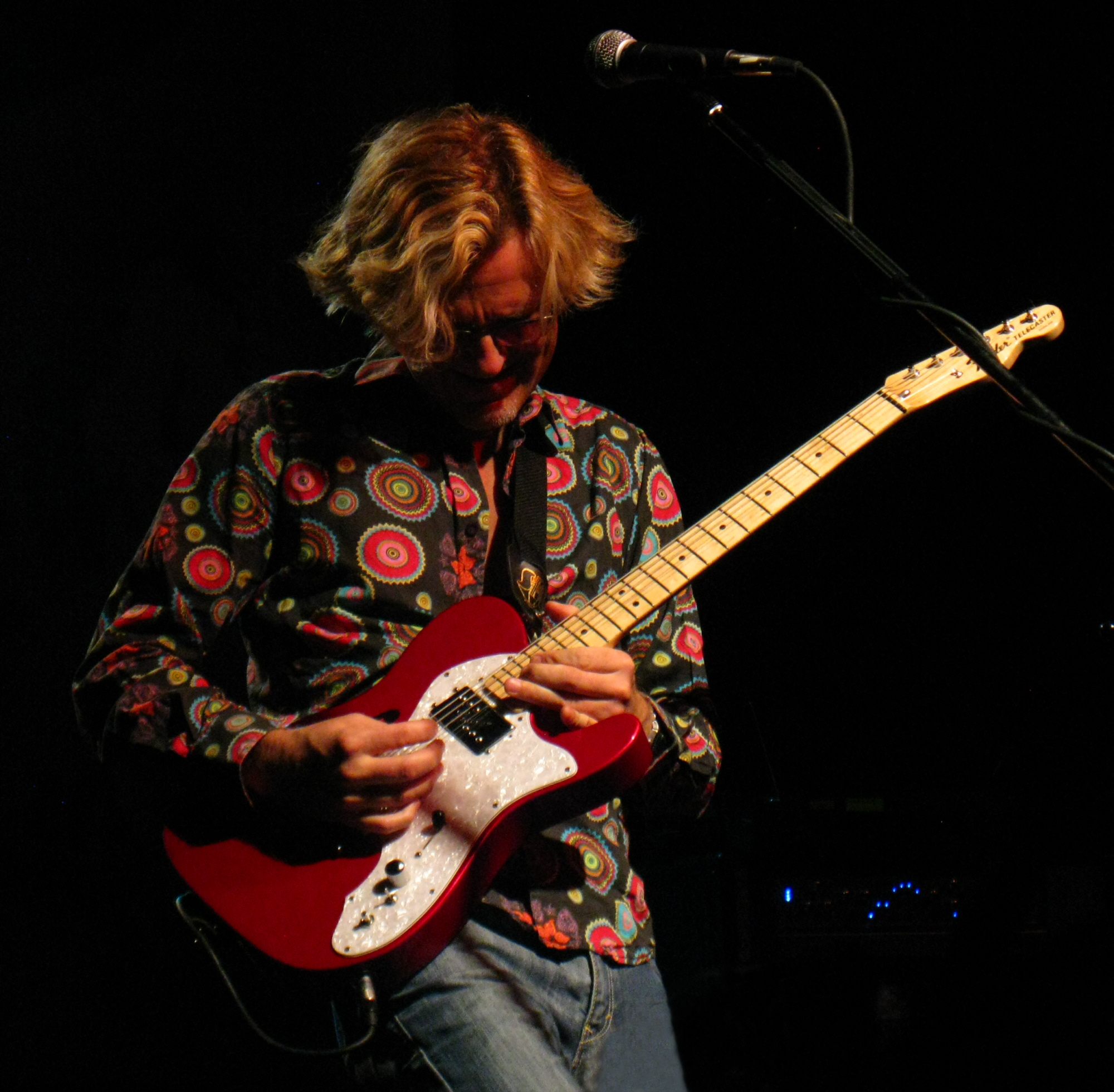 Transatlantic live in Stuttgart in 2010 - Roine Stolt.